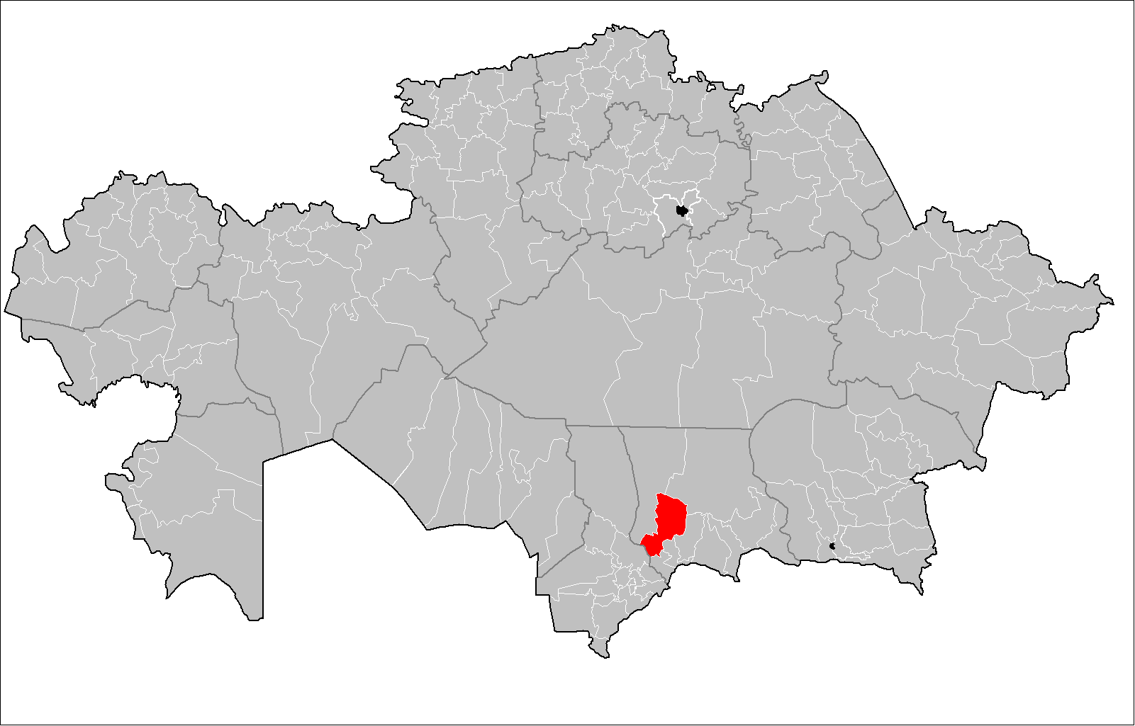 Map of the rayons of Kazakhstan. Created by Rarelibra 16:49, 3 August 2007 (UTC) for public domain use, using MapInfo Professional v8.5 and various mapping resources.